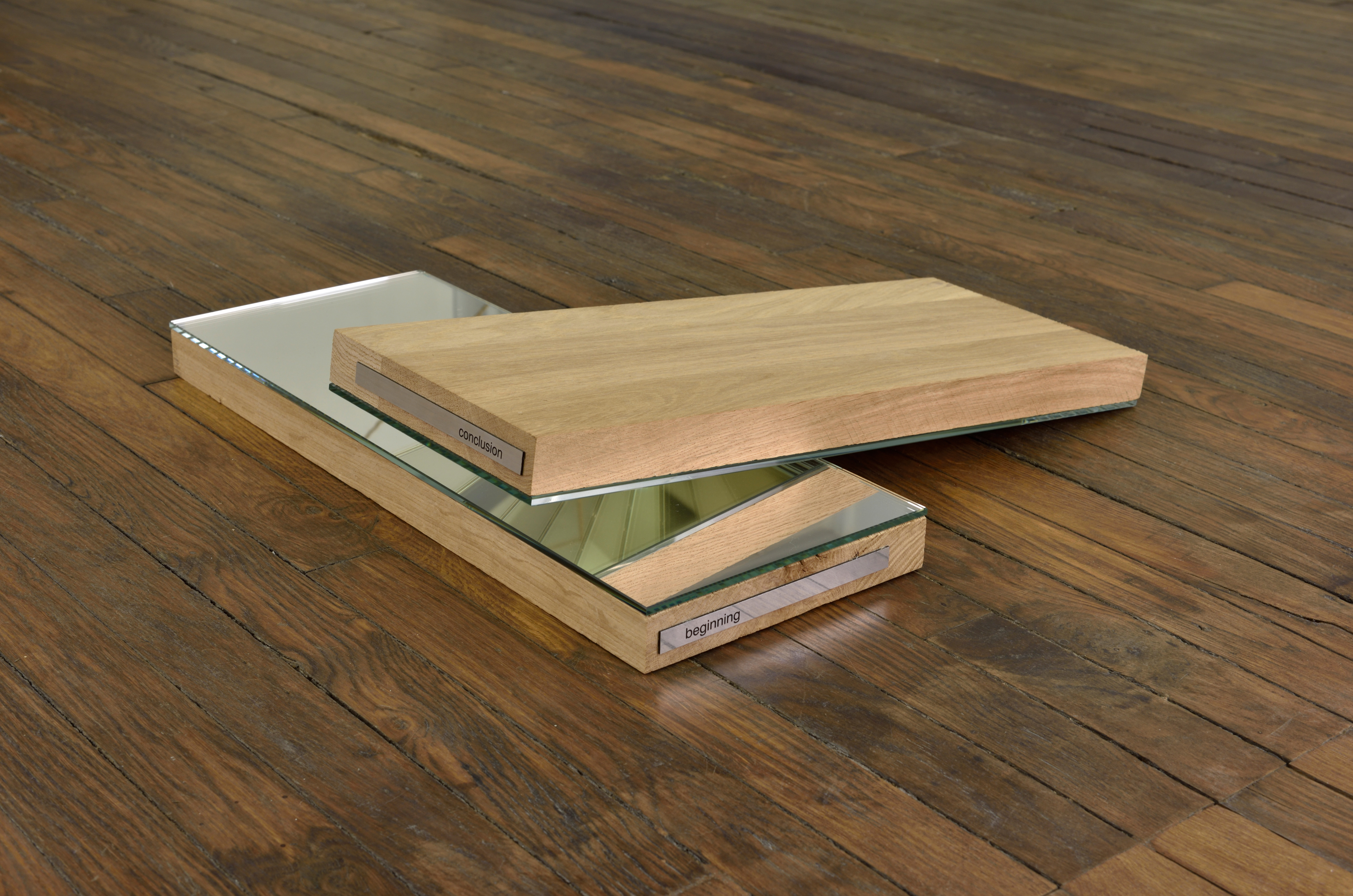 Artwork "Beginning/Conclusion" by Vittorio Santoro, 2016, Sculpture. Photo by Rebecca Fanuele